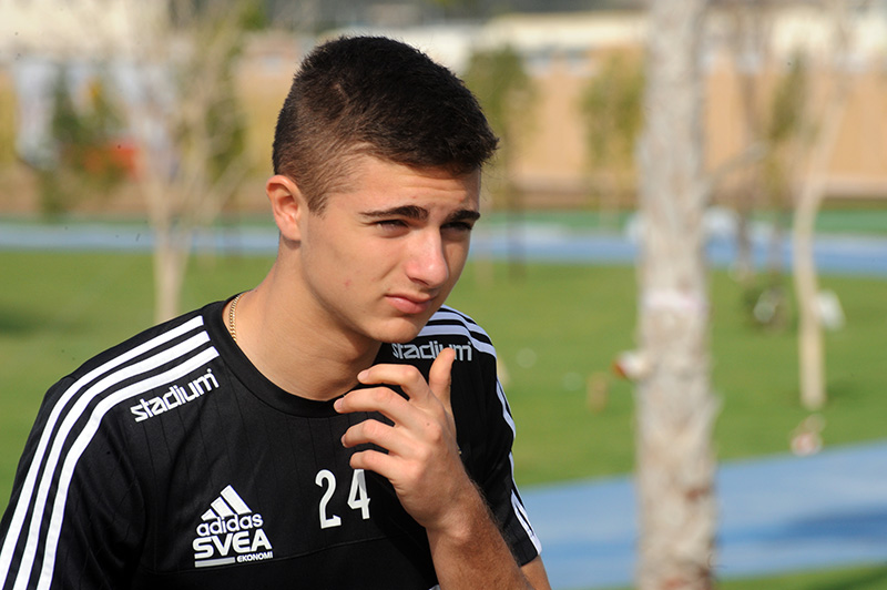 Marko Nikolić during AIK's training camp in Dubai in february 2015.